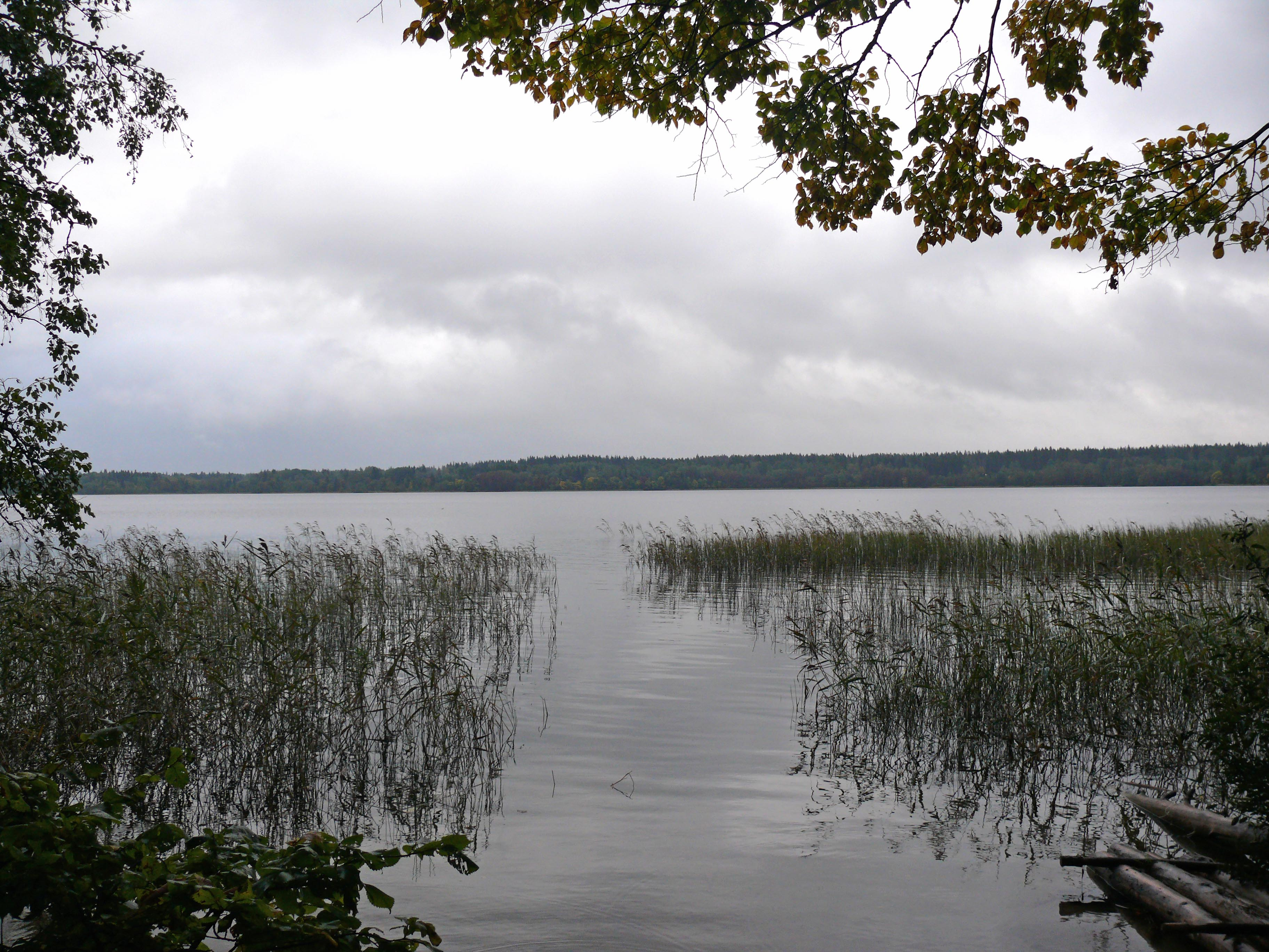 Valdaiskoe lake. East part. Novgorod oblast, Russia